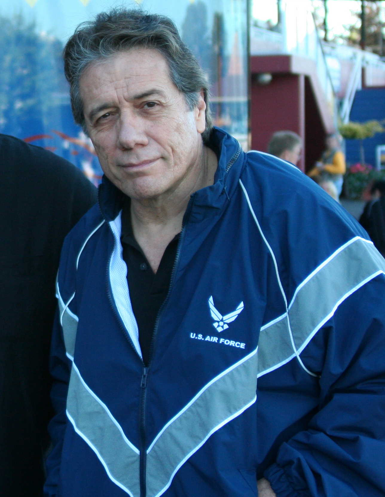 American actor Edward James Olmos.